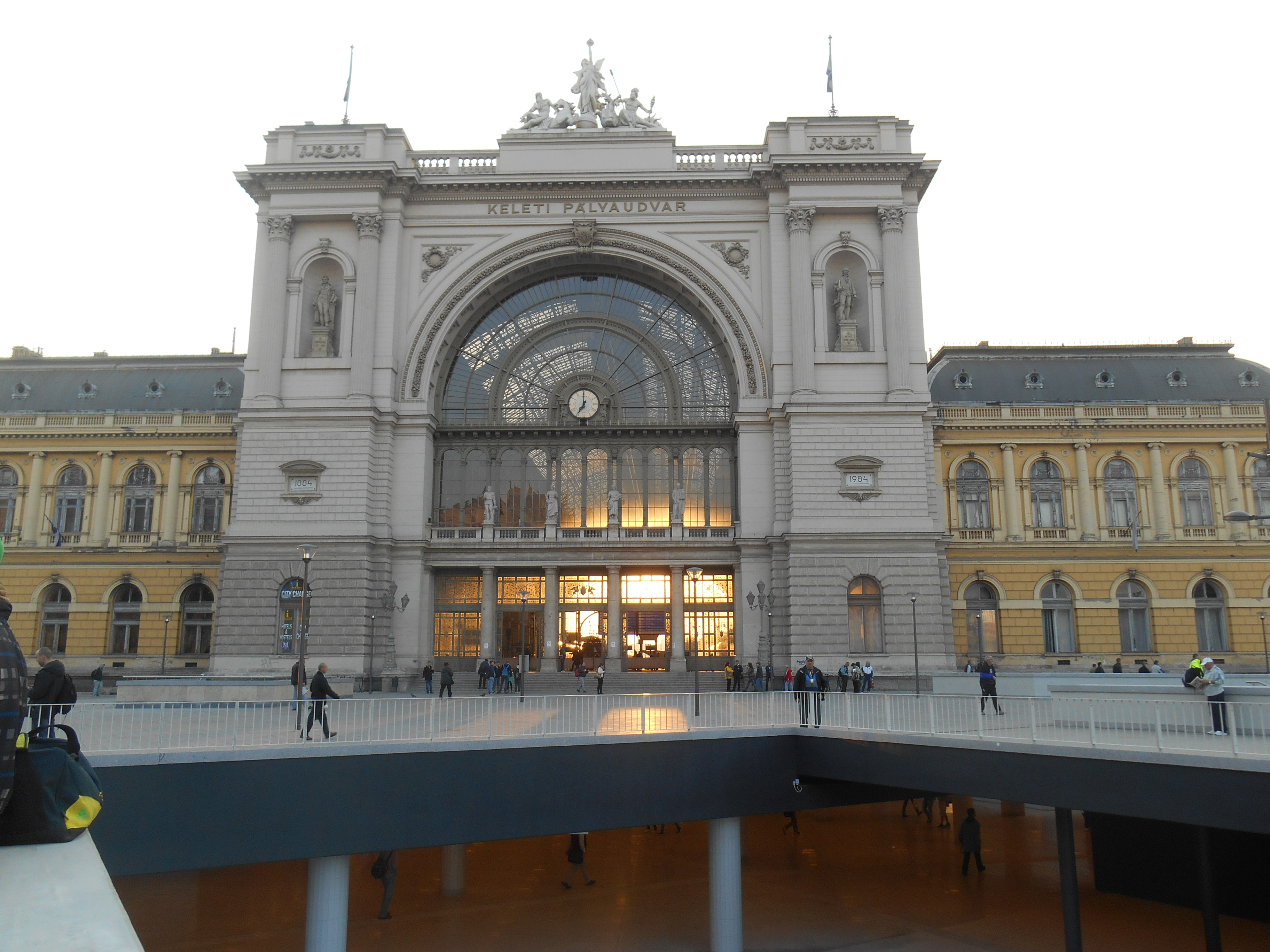 Keleti Pályaudvar, Eastern railway terminus, in Budapest, taken as the sun rises through the main glass of the train shed.